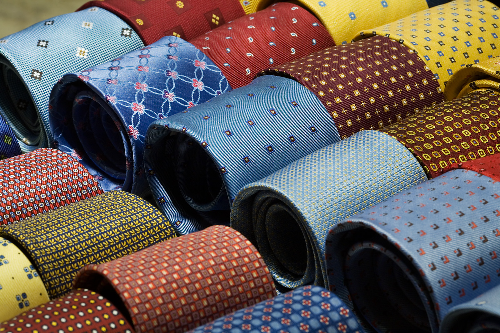 Silk ties rolled in a shop window display